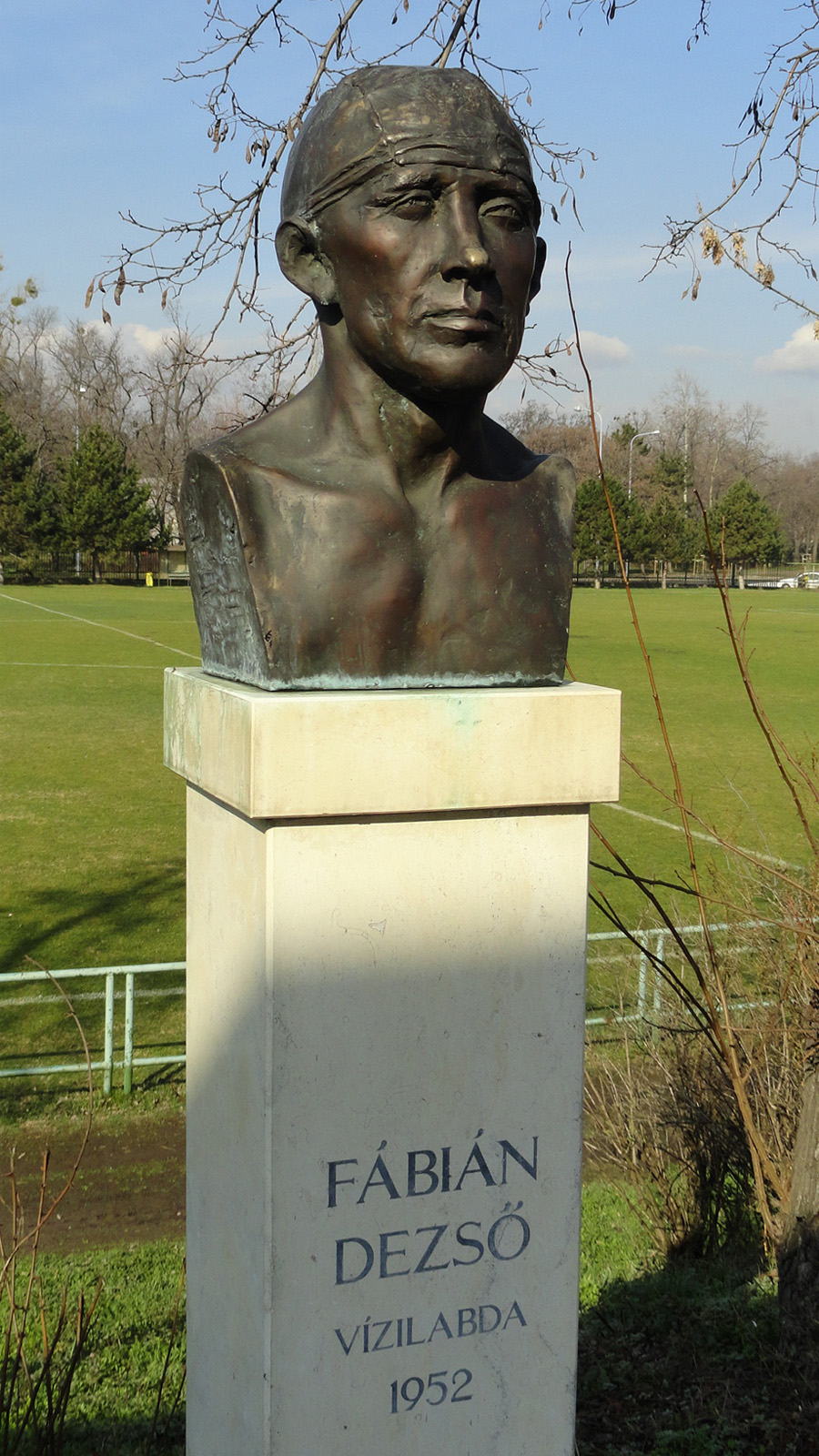 Dezső Fábián, hungarian water polo player. 1952 Summer Olympics - Gold Medal Winner